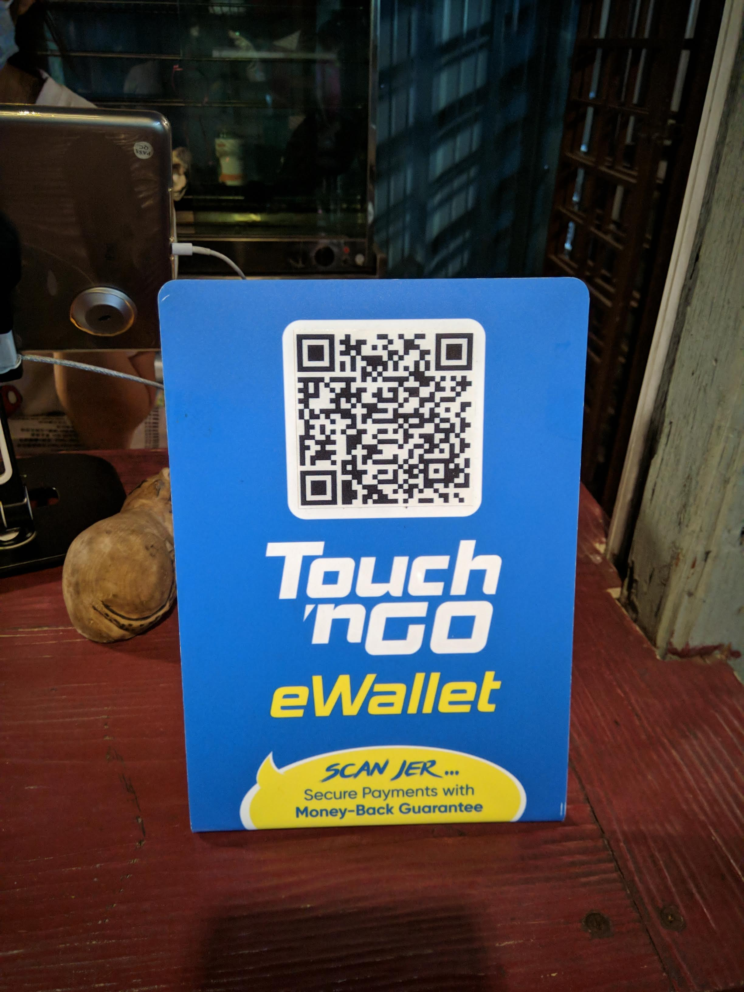 Touch 'n Go merchant touchpoint which is currently using as of May 2020